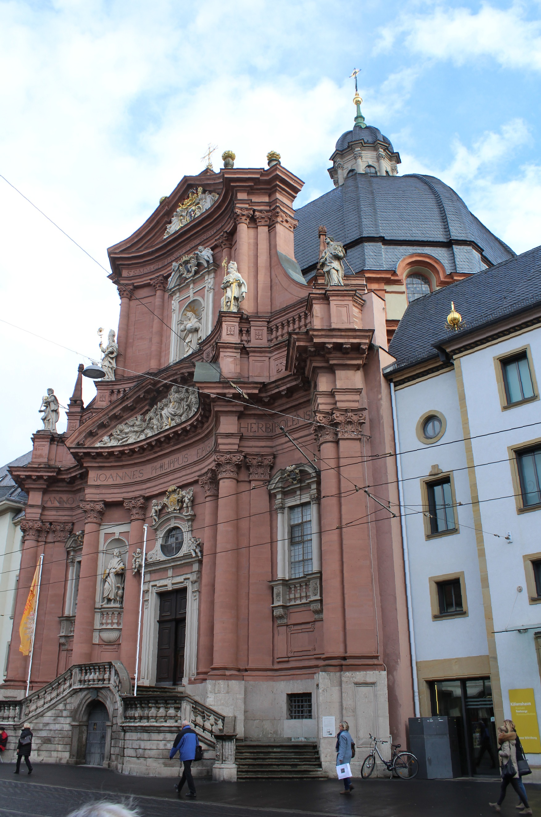 Würzburg, the Neumünster